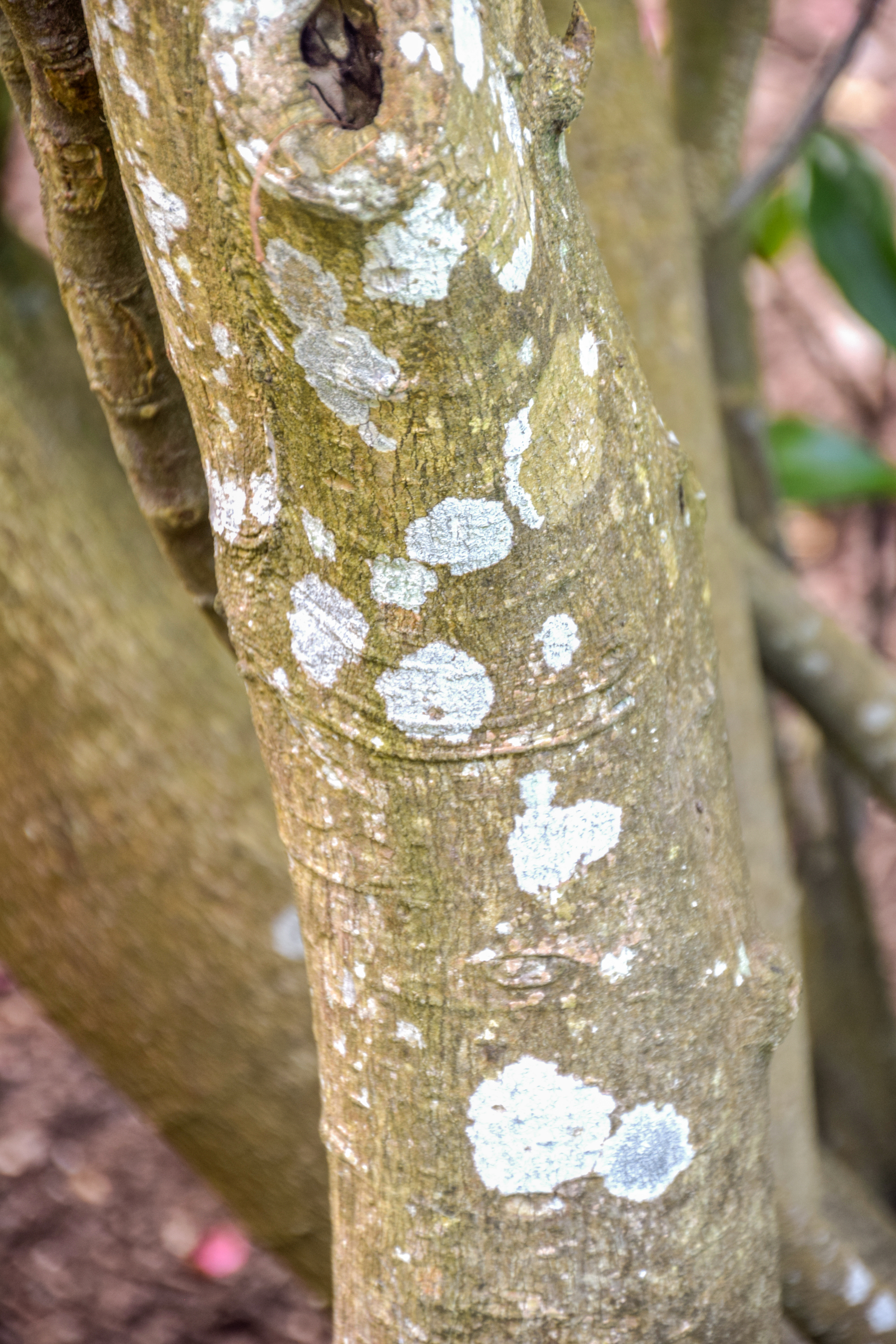 Bark of Magnolia figo in Wellington Botanical Garden, Wellington Region, North Island of New Zealand